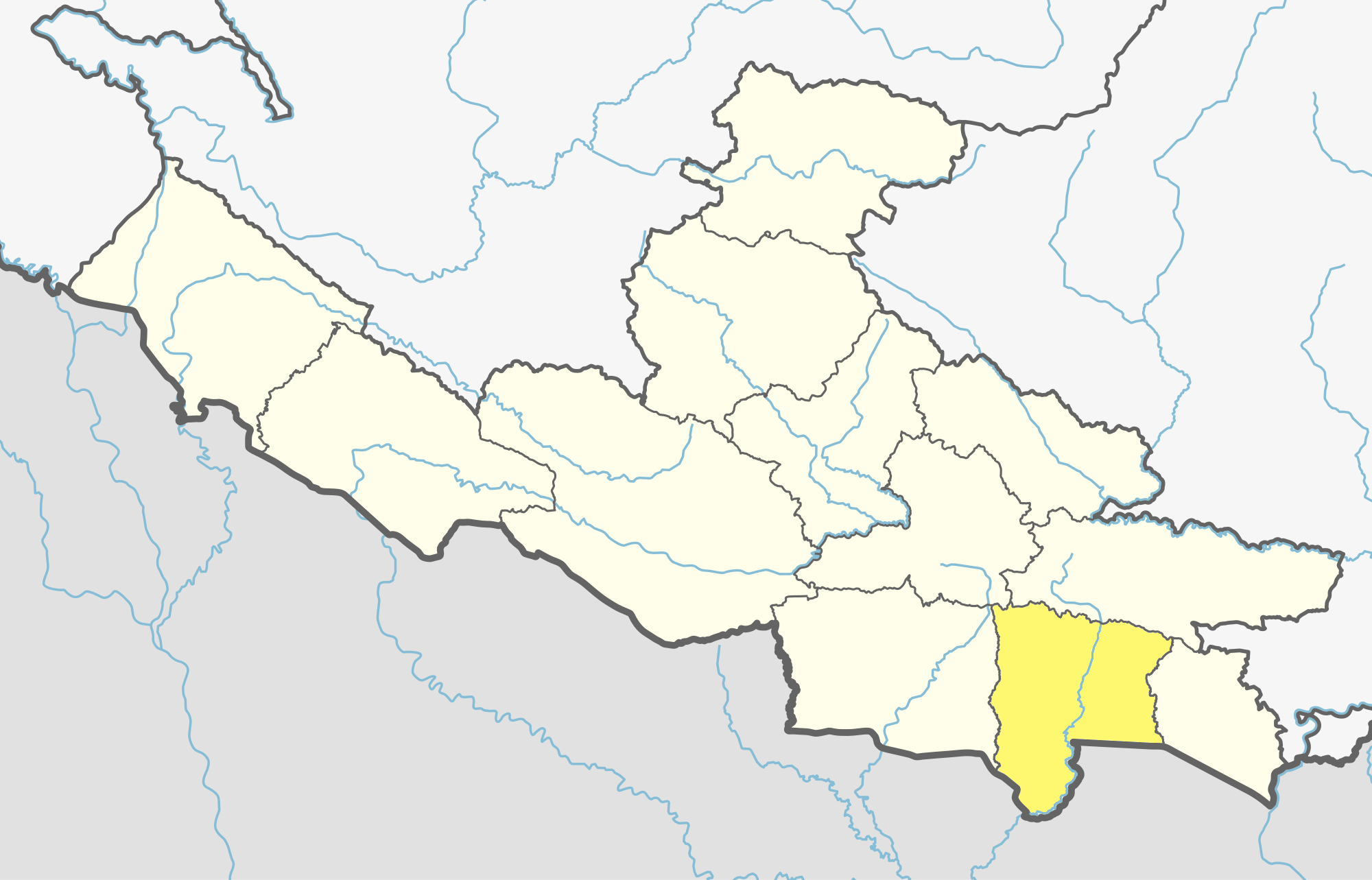 Rupandehi District